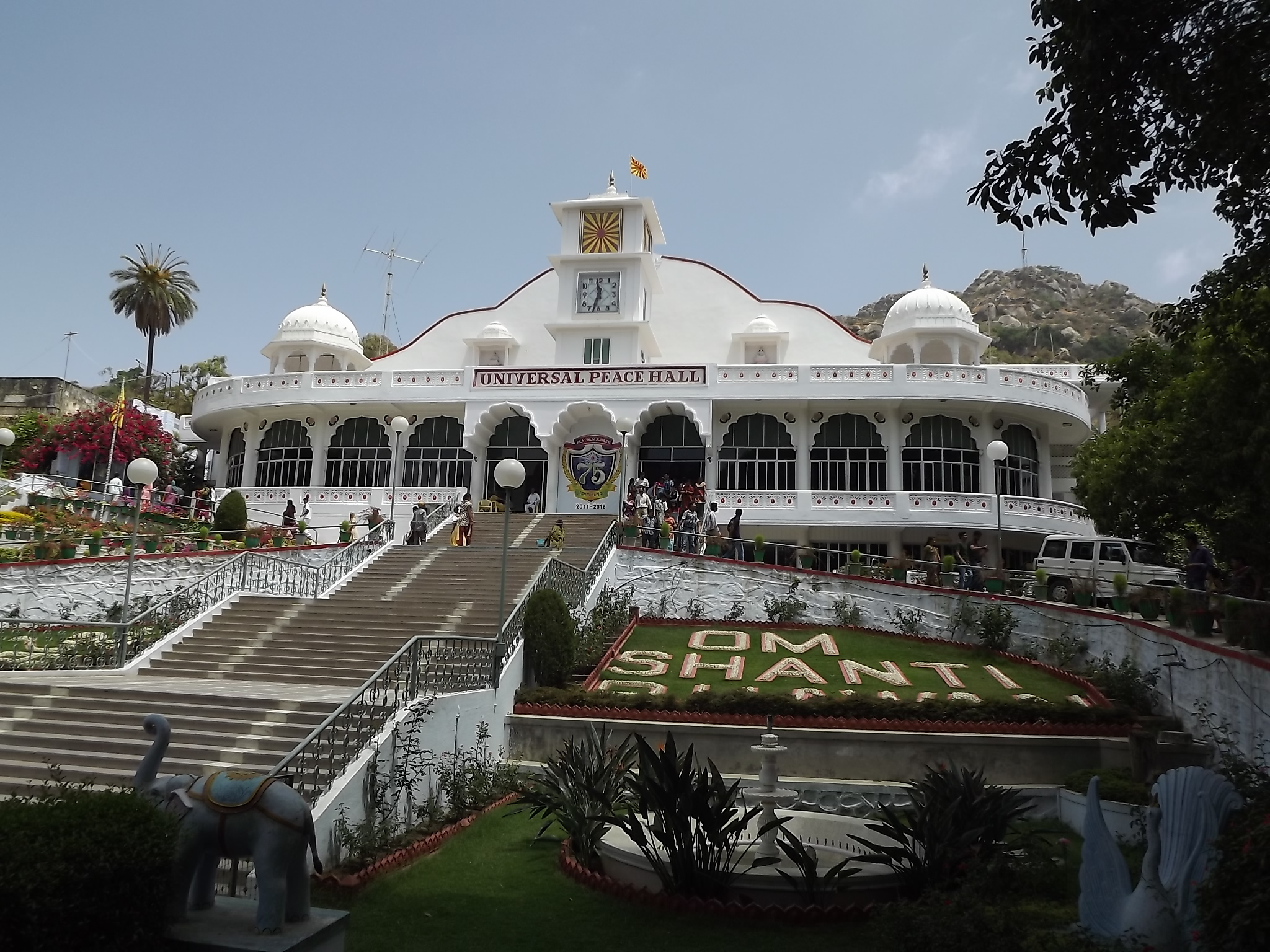 Brahma Kumari foundation headquarters at Mount Abu, Rajasthan.